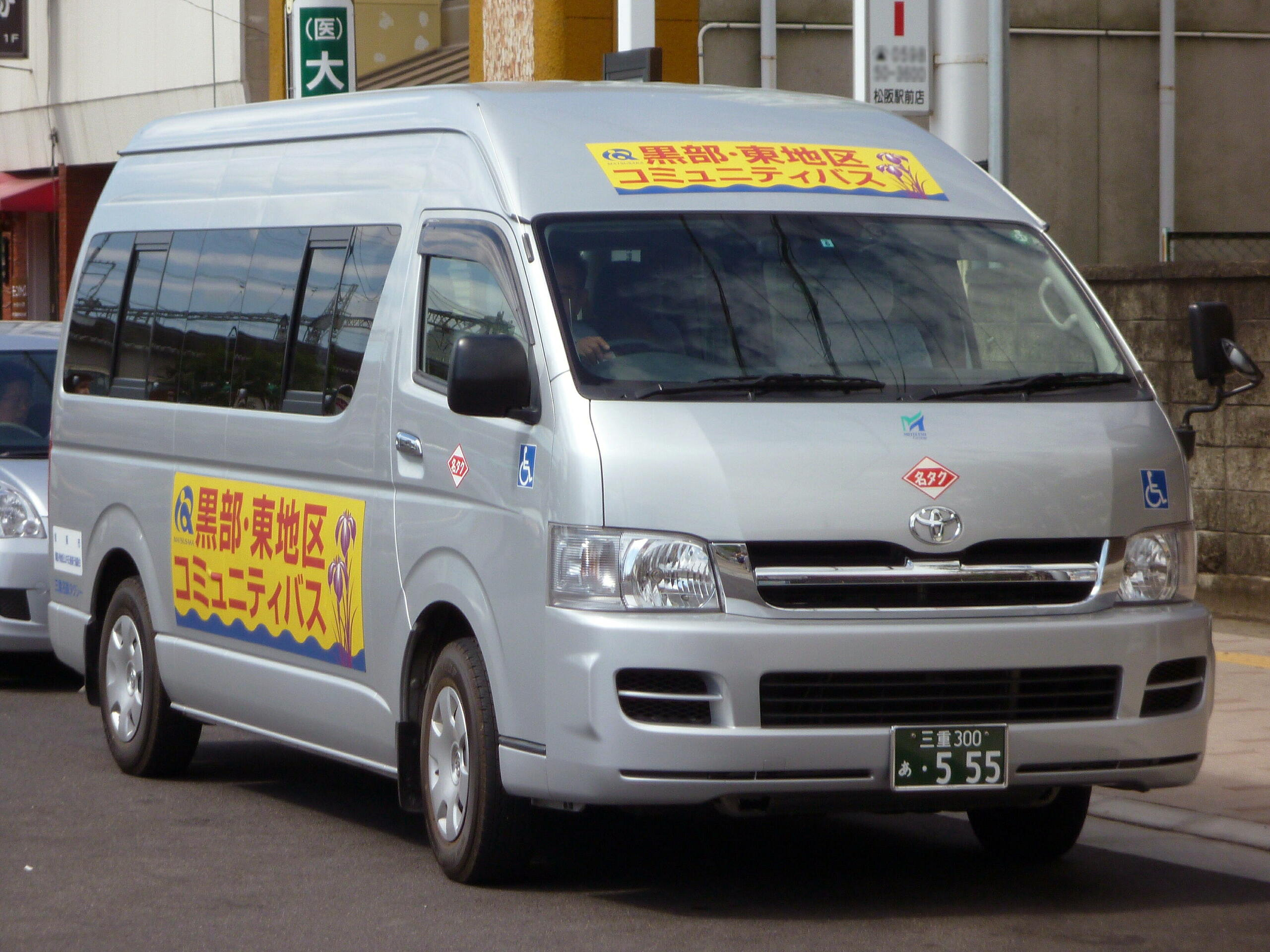 Matsusaka Kurobe-Higashi Community Bus stopped in front of Matsusaka Station north exit.